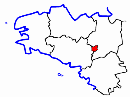 Description: Map for localisazion of cantons of Bretagne region in France Source: made by Hervé Tigier from another large map